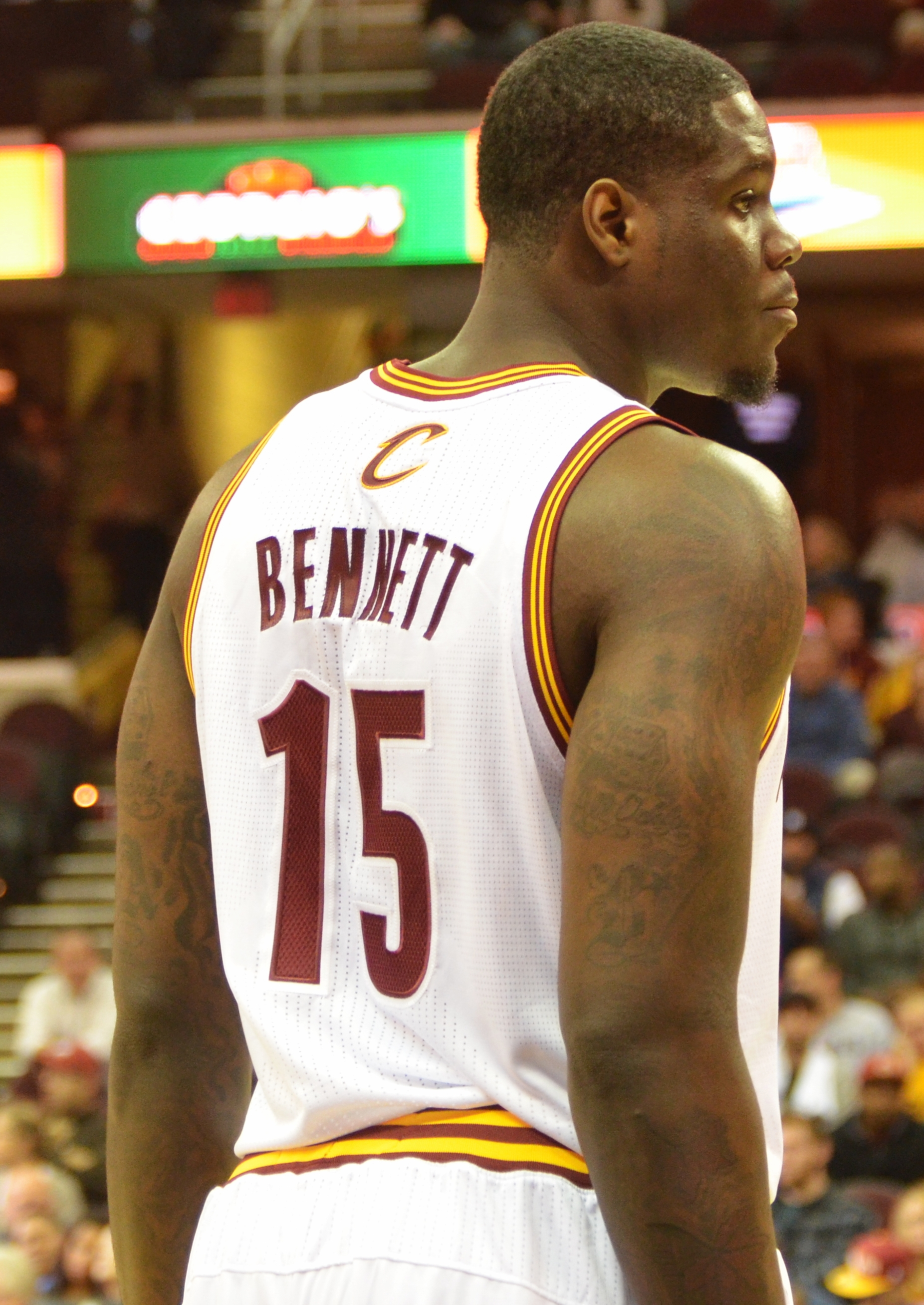 Anthony Bennett